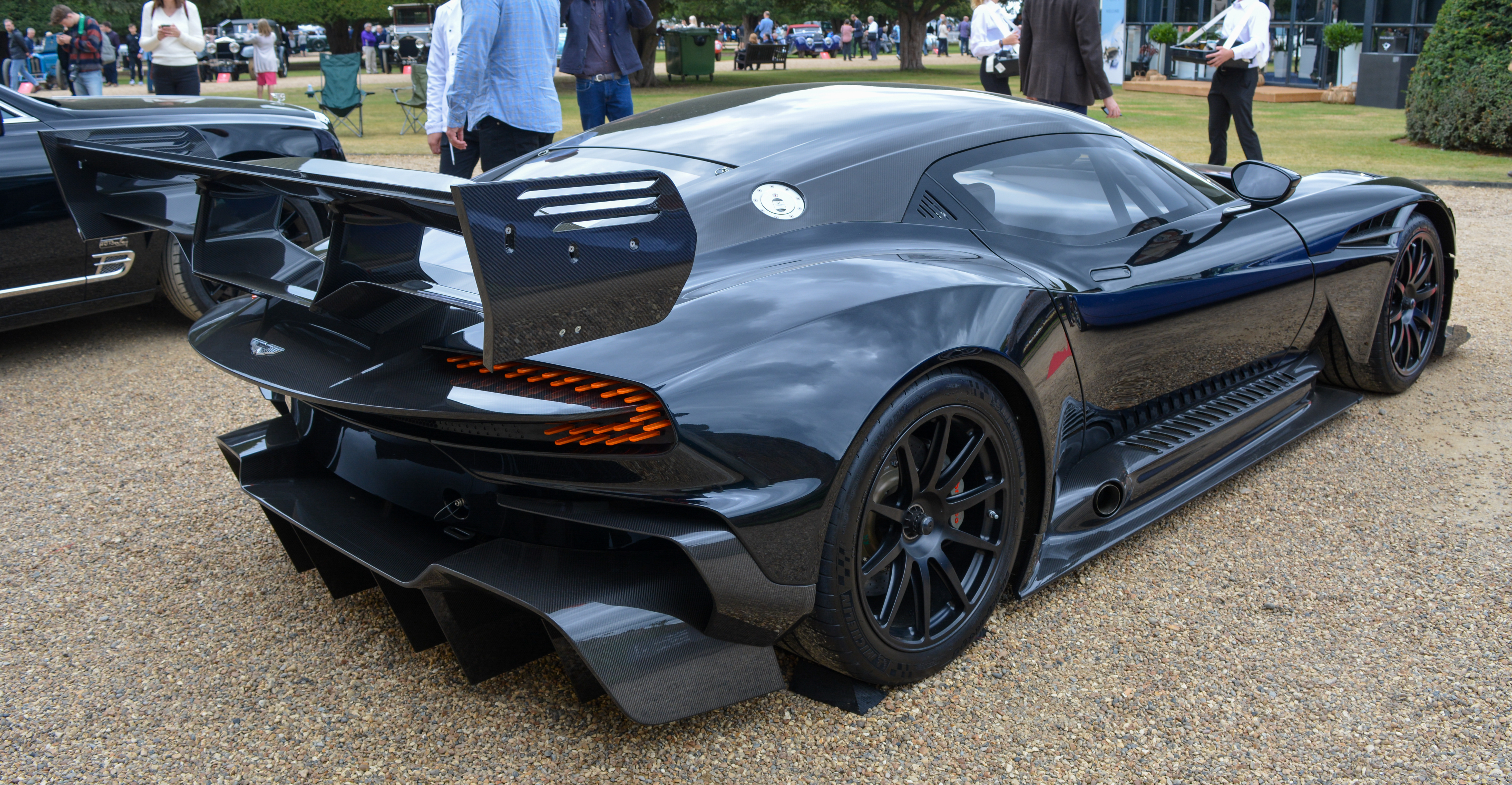 2015 Aston Martin Vulcan 7.0 Rear Taken at the Concours d'Elegance Hampton Court 2019